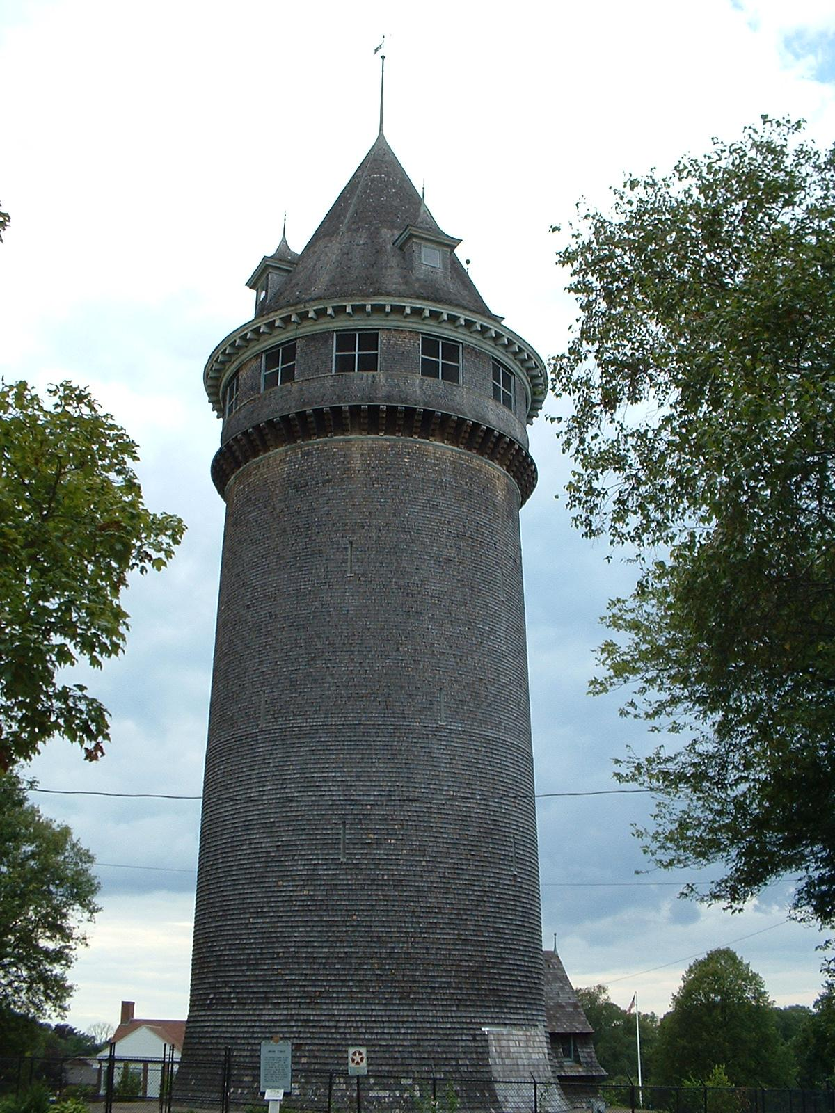 The Lawson Tower, a 153-foot tall water tower, topped with an observatory and clock tower with carillon, located in Scituate, Massachusetts. It was built by Thomas Lawson, whose Dreamworld estate was just north of the site.